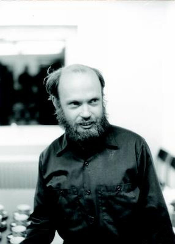 Andreas Dress, Erlangen 1976